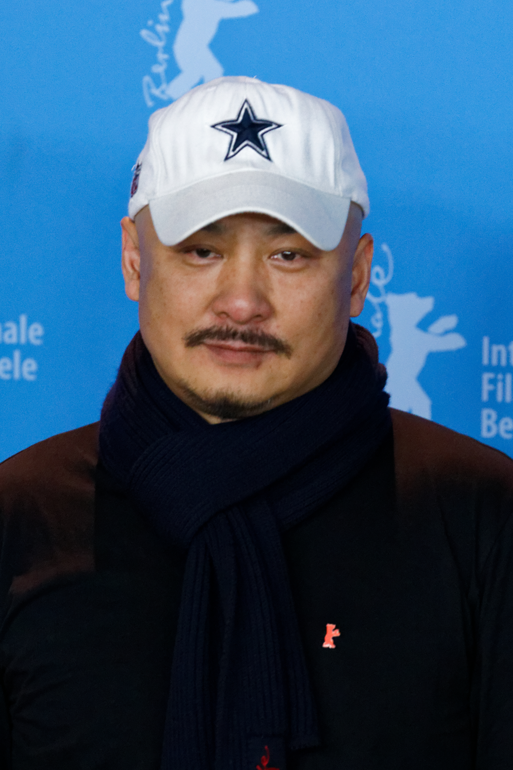 Wang Quan’an at Berlinale 2017